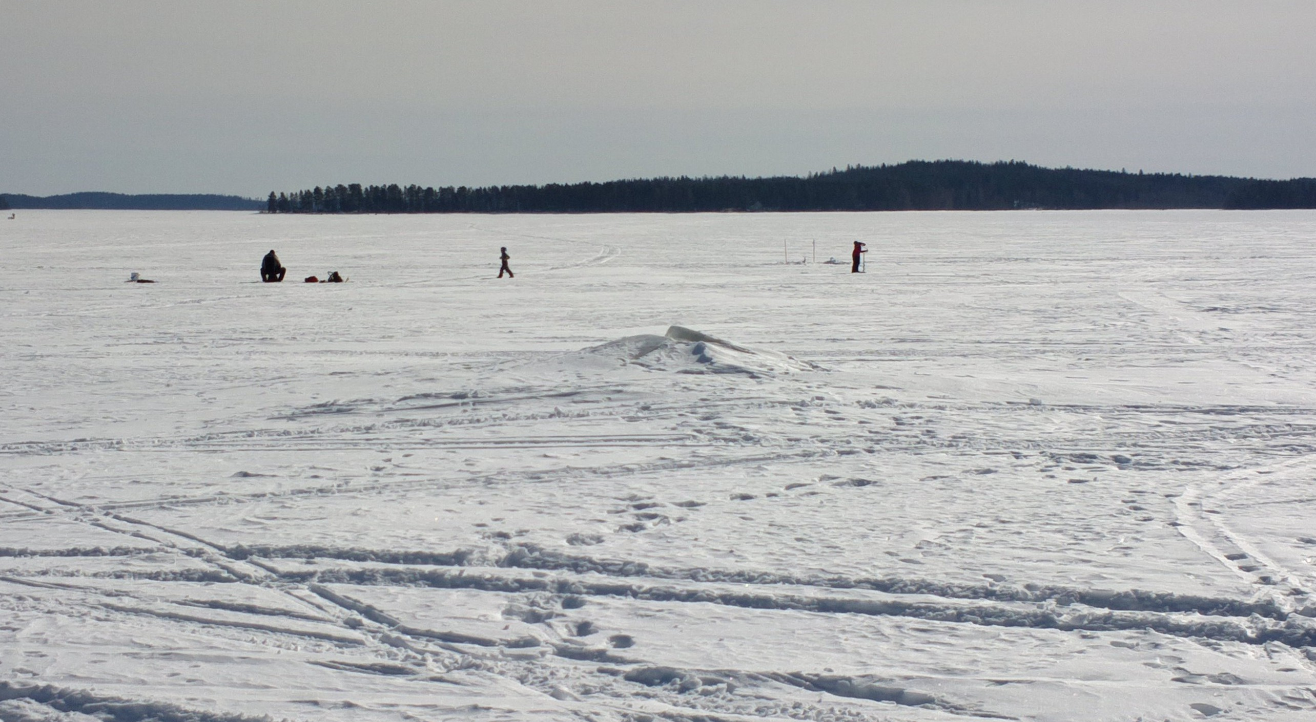 Lake Kyrösjärvi during winter. Kyröskoski hydroelectric station uses the water of Kyrösjärvi and causes lake water level to decrease so that stones near the shore are pushing through the ice. Ice fishers further away.